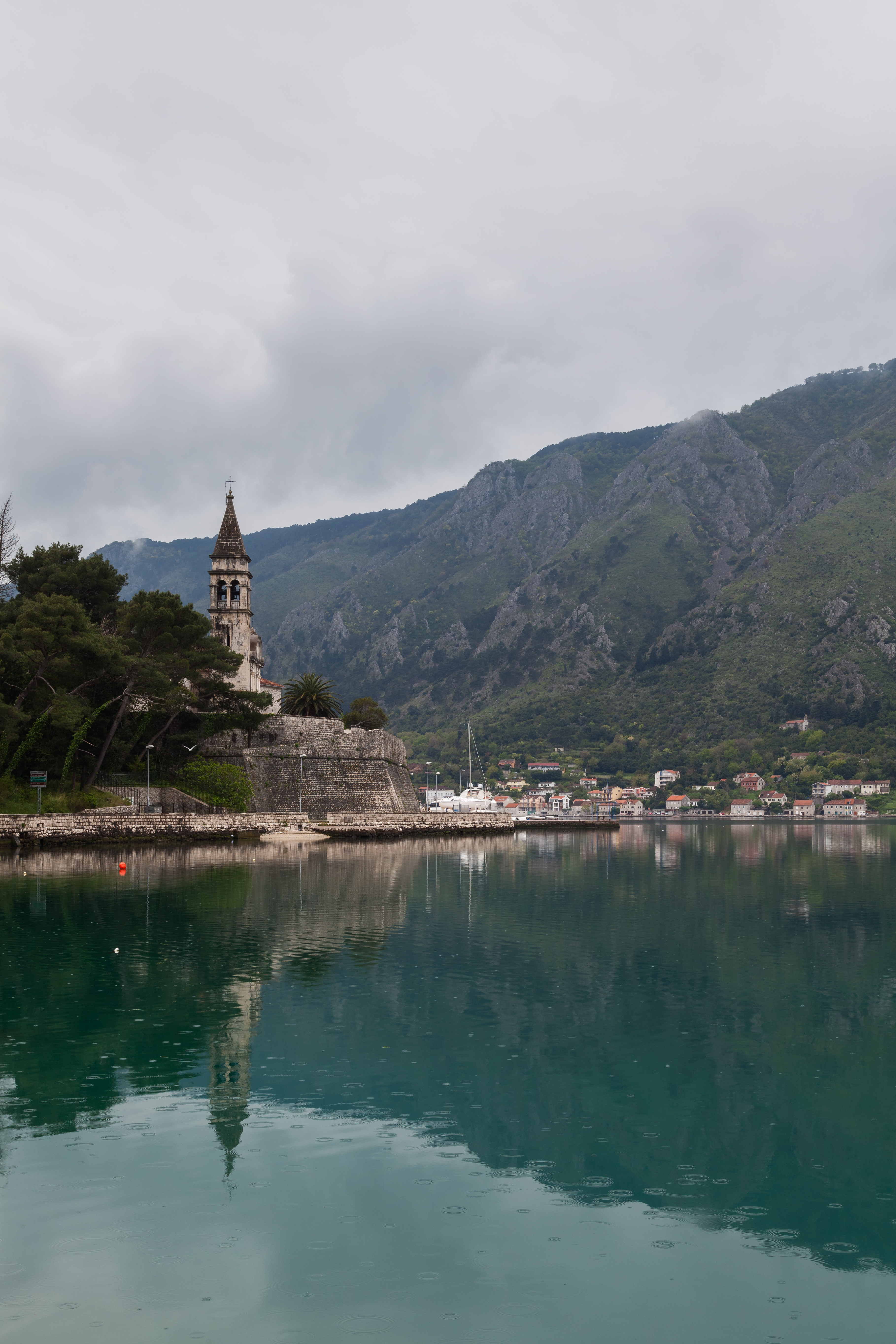 St Matthews church, Dobrota, Bay of Kotor, Montenegro